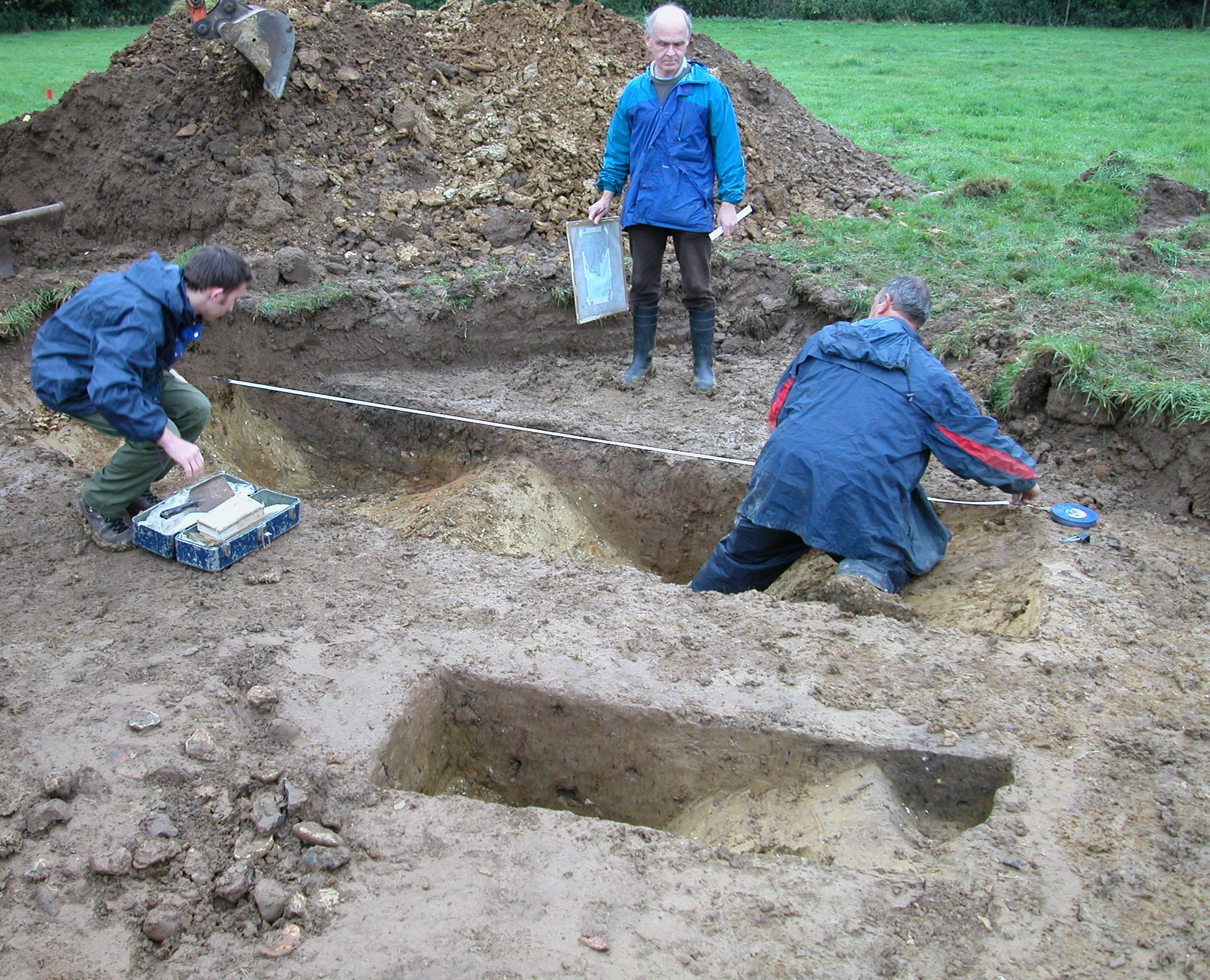 Recording ditches at Wickham Market hoard site This was added from the site called under the name portableantiquities. See source for details.